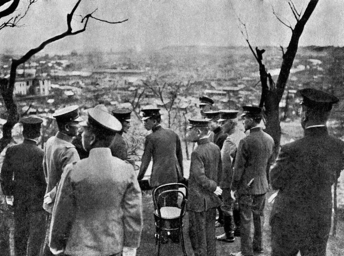 H. I. H. the prince regent visiting ruined districts. HIH the Prince Regent viewing devastated Yokohama from the site of the burned Yokohama Specie Bank Club.